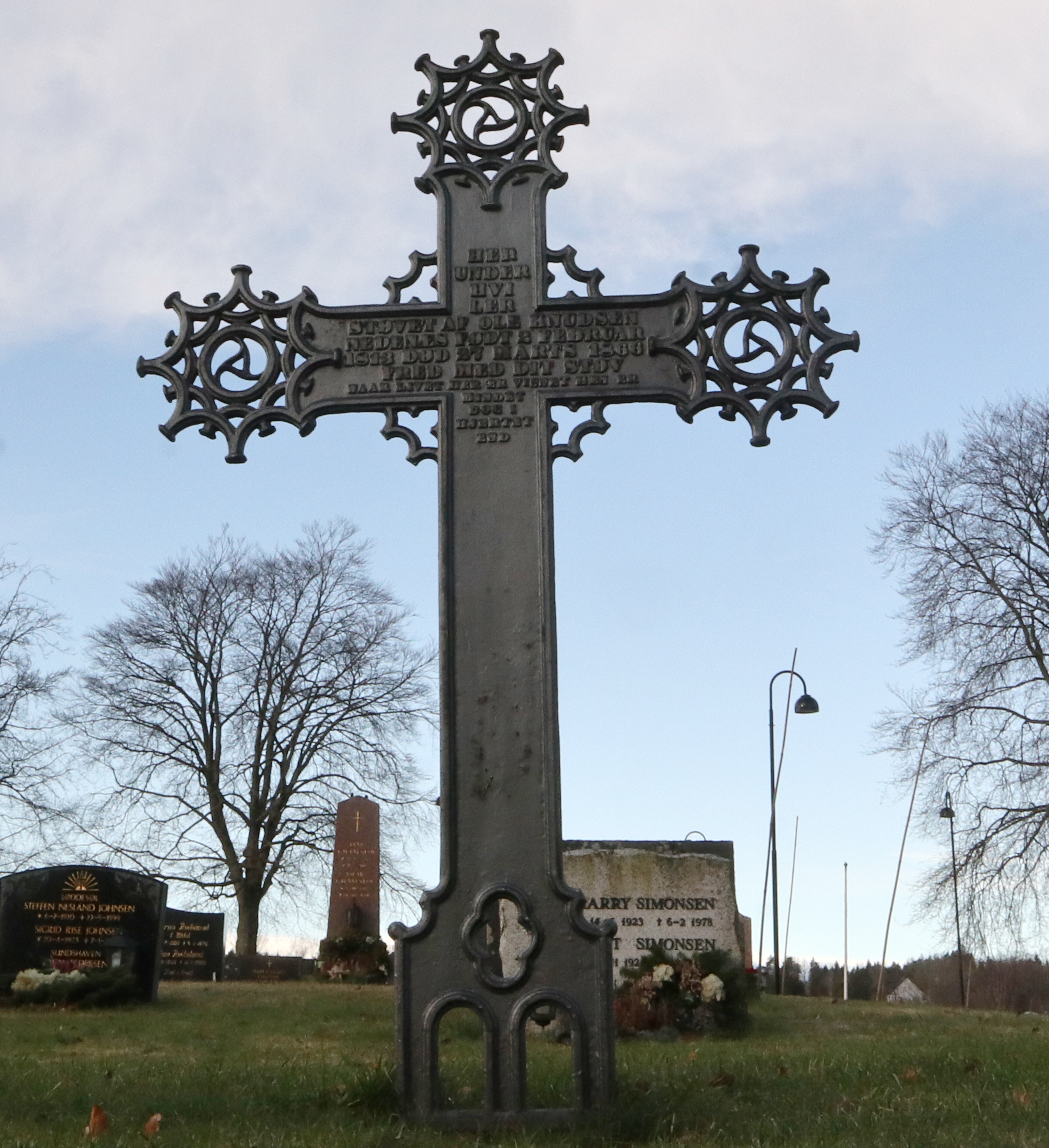 Memorial Cast Iron Cross at Old Øyestad churchyard